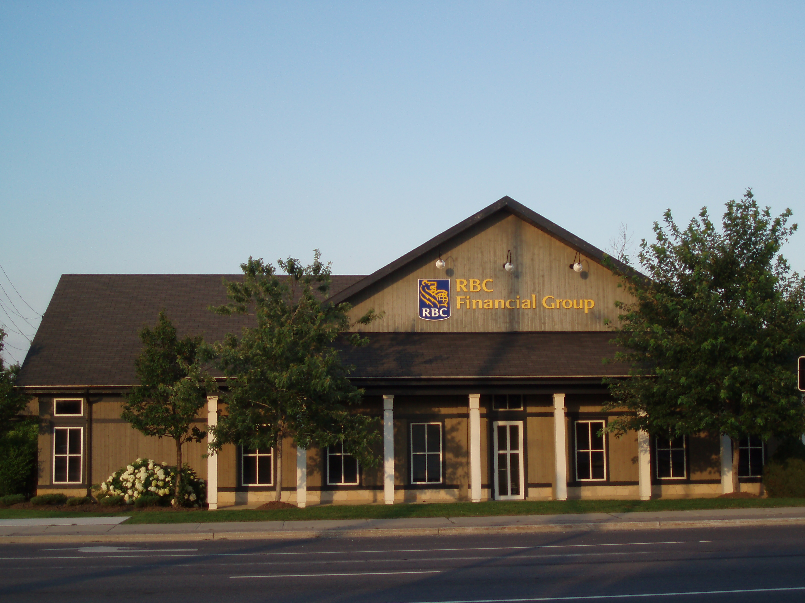 Royal Bank of Canada at Woodbine & 16th